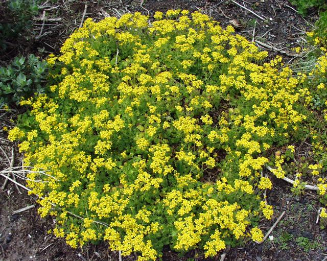 (en) Cineraria geifolia, a photography originating of the internet site The accord of the autor, H. Brisse, is here. (fr) Cineraria geifolia, une photographie issue du site internet L'accord de l'auteur, H. Brisse, se situe ici.